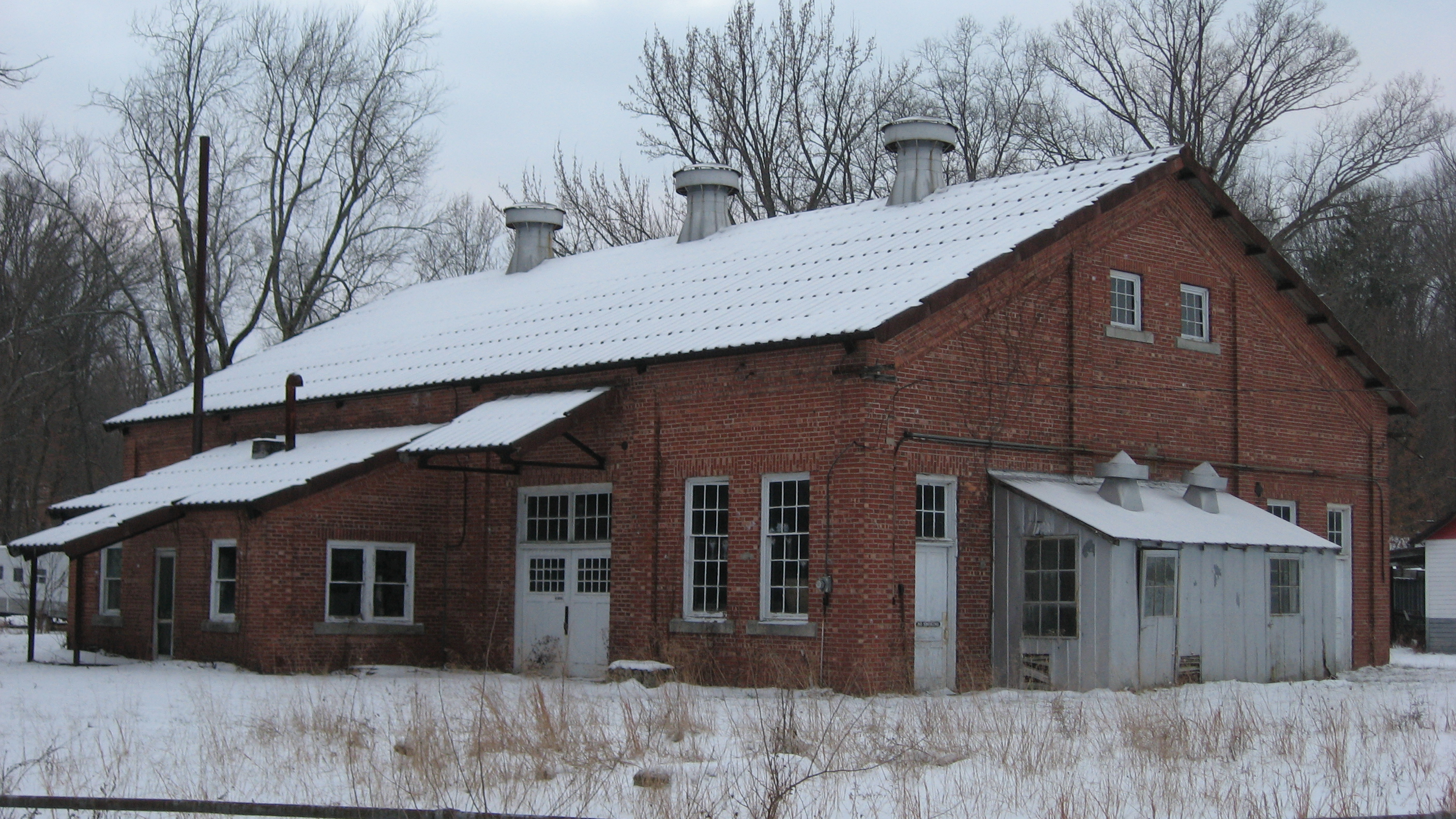 Front and eastern side of the main building at the Tide Water Pumping Station, a former Standard Oil of Ohio station located on the southwestern corner of the intersection of County Roads 300E and 900S east of Coal City in Harrison Township, Clay County, Indiana, United States. Built in 1915, the pumping station is a historic district that is listed on the National Register of Historic Places.